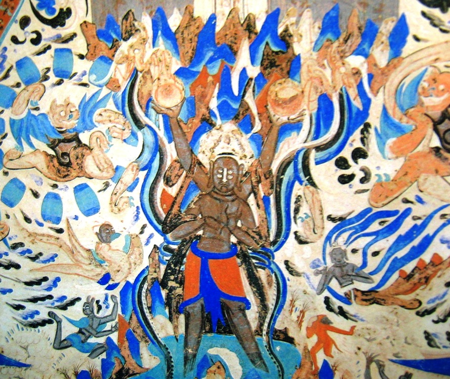 Asura in 249th cave of Mogao Caves